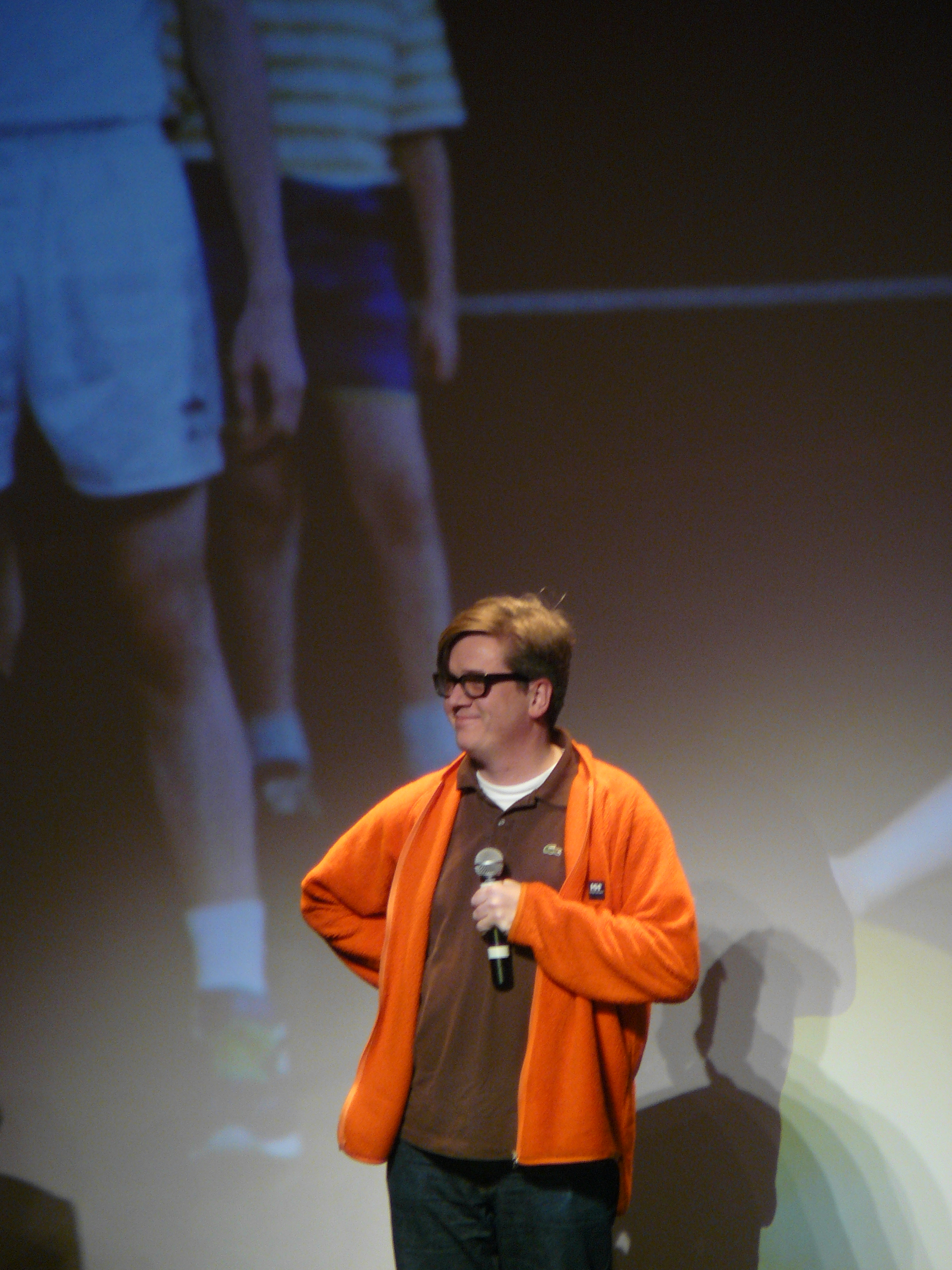 Tomas Alfredson at Fantastic'arts 2009